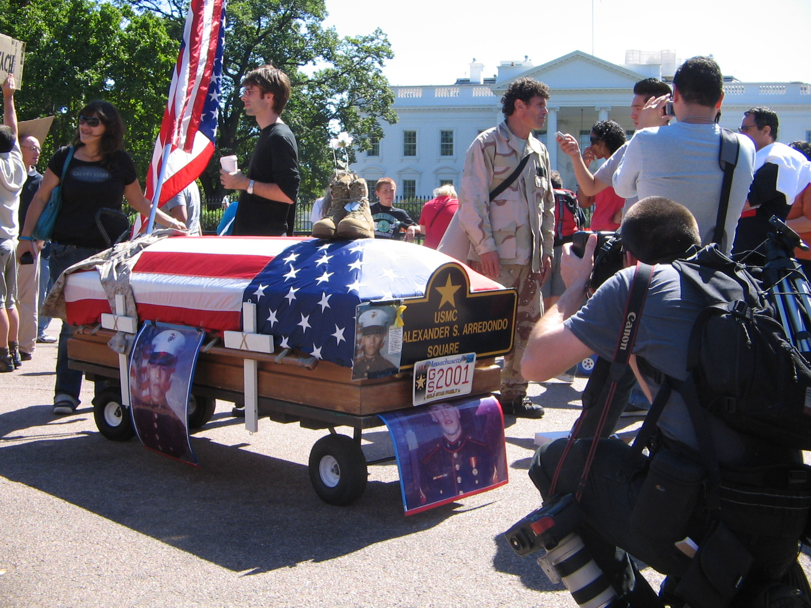 photograph by V.A. Reinhart taken September 15, 2007 at the White House